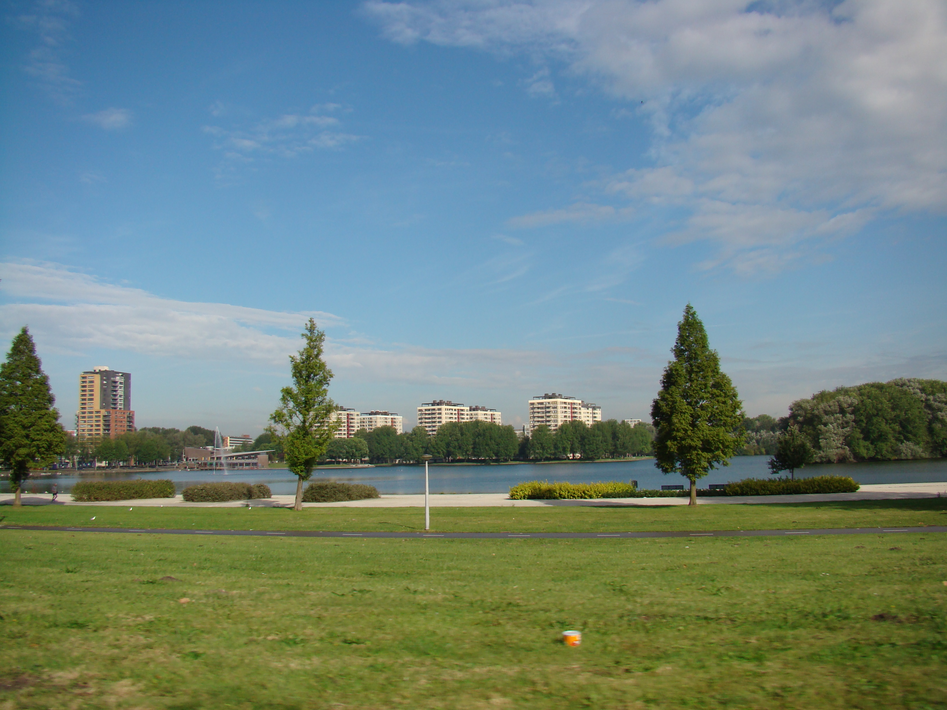 Sloterplas at Amsterdam